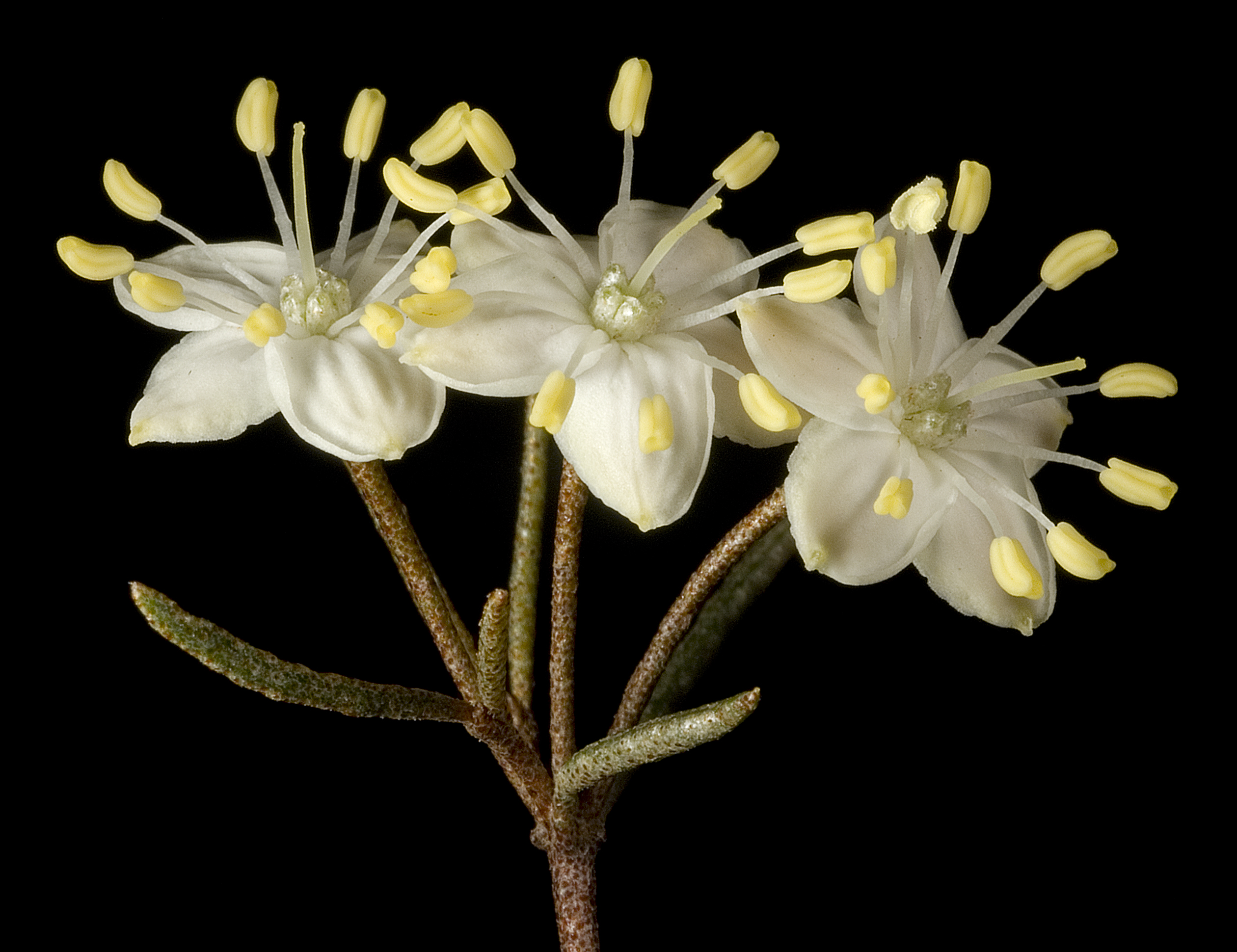 Phebalium filifolium near Forbes Road, 3.7km south of Lovering Road, Kondinin, Western Australia